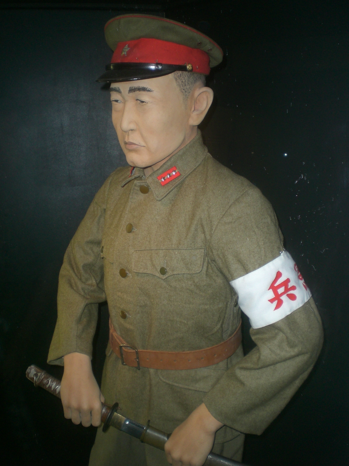 筲箕灣 香港海防博物館 日軍